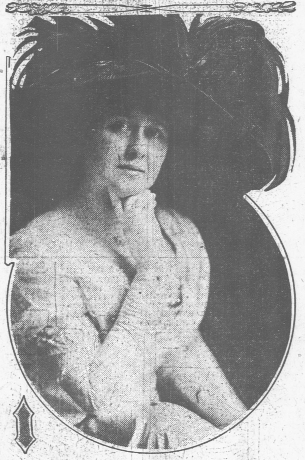 The newspaper just listed her as the wife of Joseph R. Knowland, but based on it being in 1912 I believe this to be Emelyn Knowland.